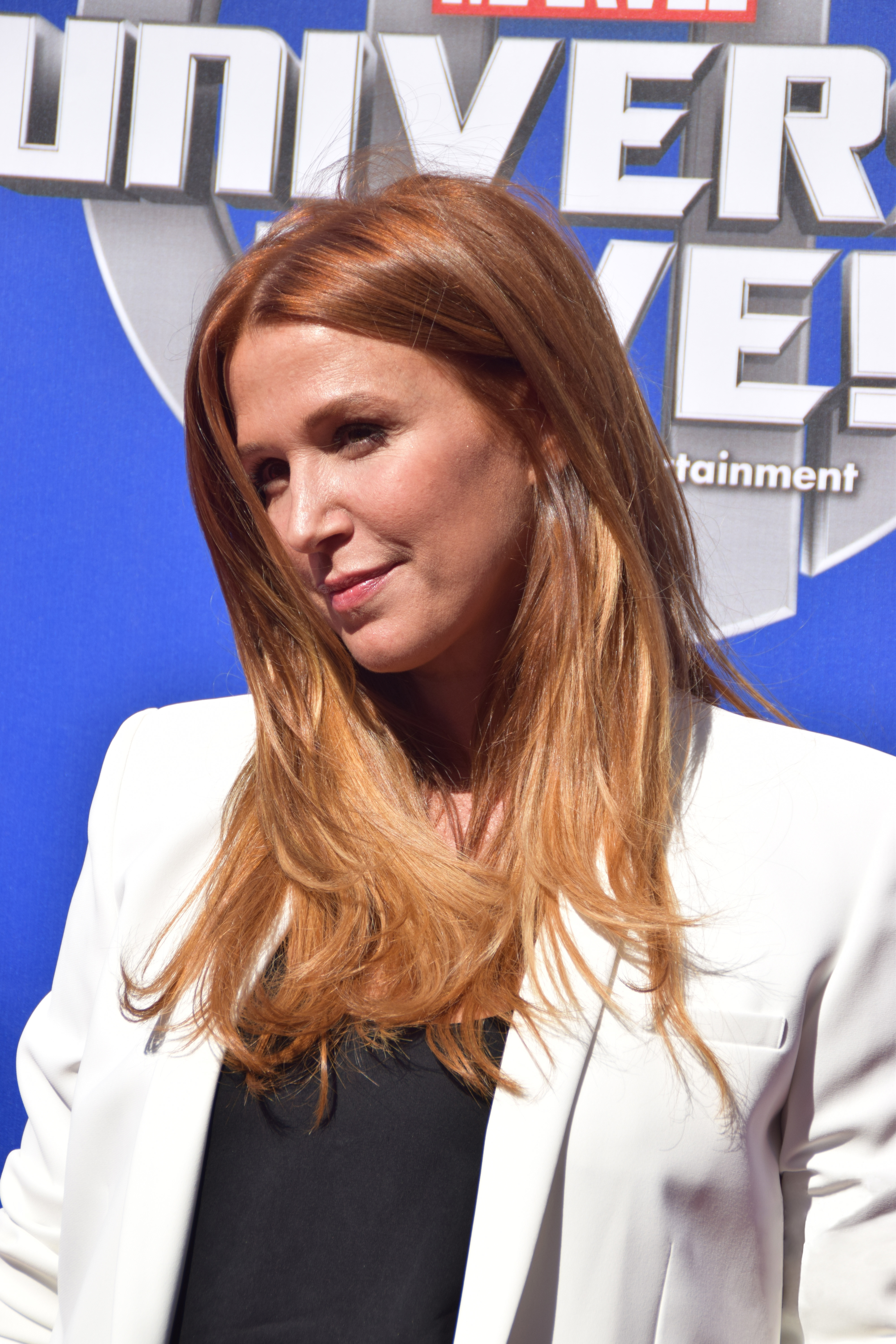 Actress Poppy Montgomery at the MARVEL UNIVERSE LIVE! celebrity premiere